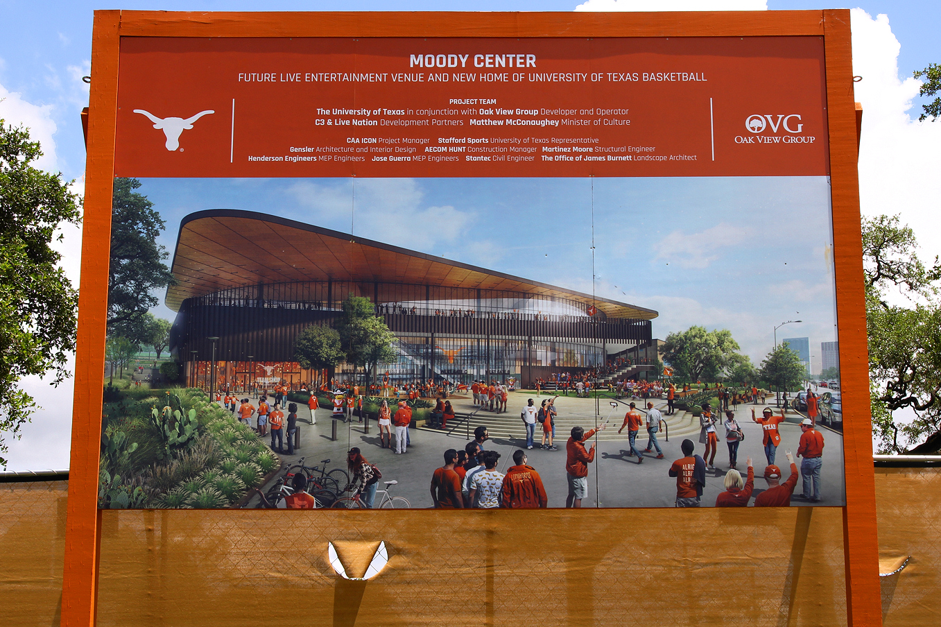 Signage at the construction site of the new Moody Center at the University of Texas at Austin in Austin, Texas, United States.